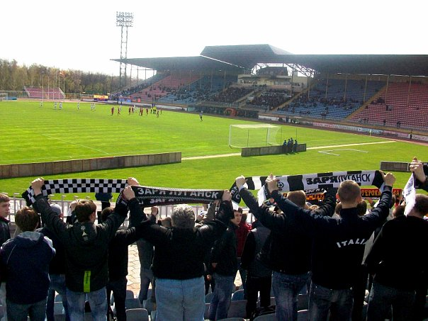 Illichivets Stadium, Mariupol